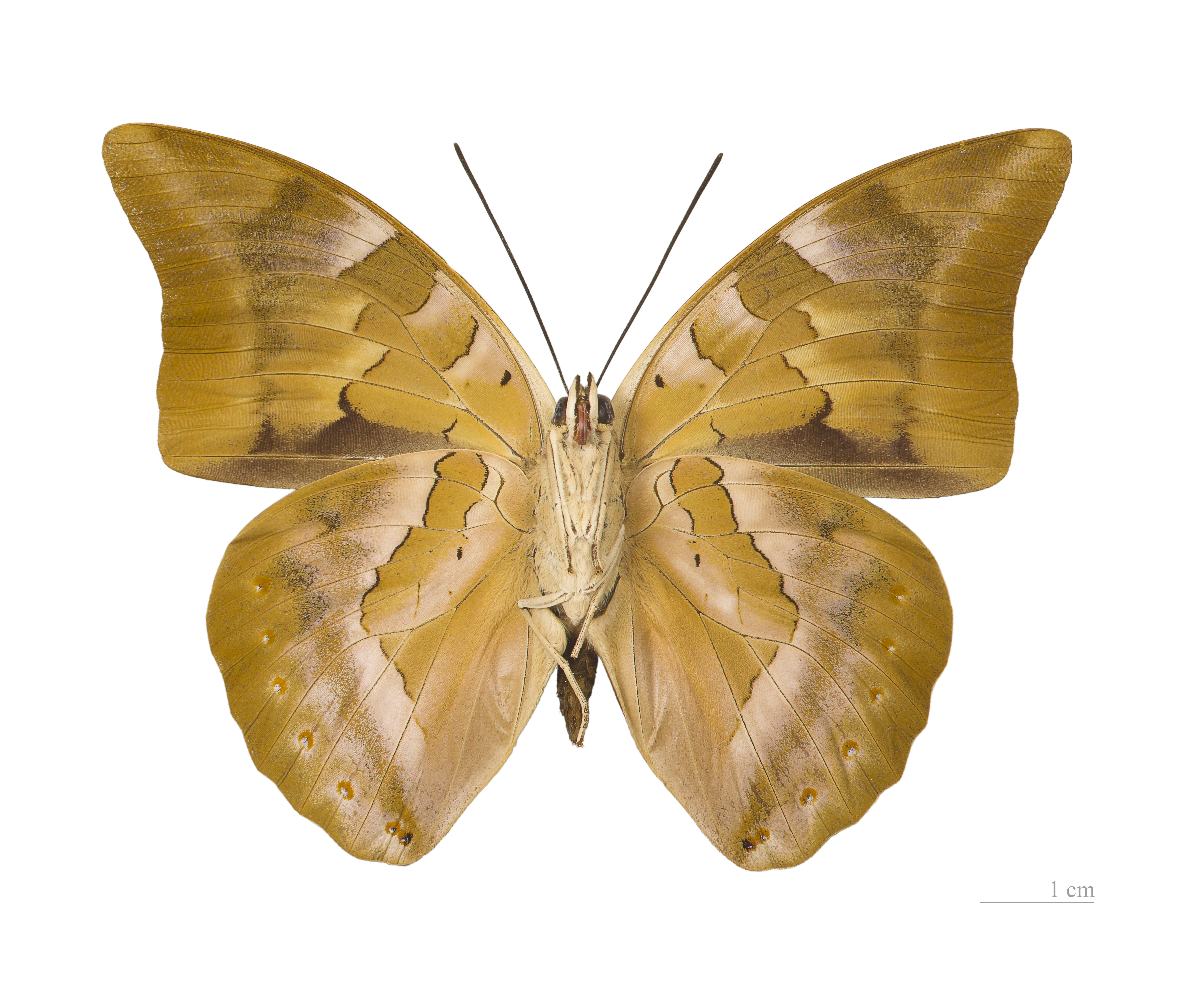 ♂ - △ Ventral side Locality : Tena, Ecuador